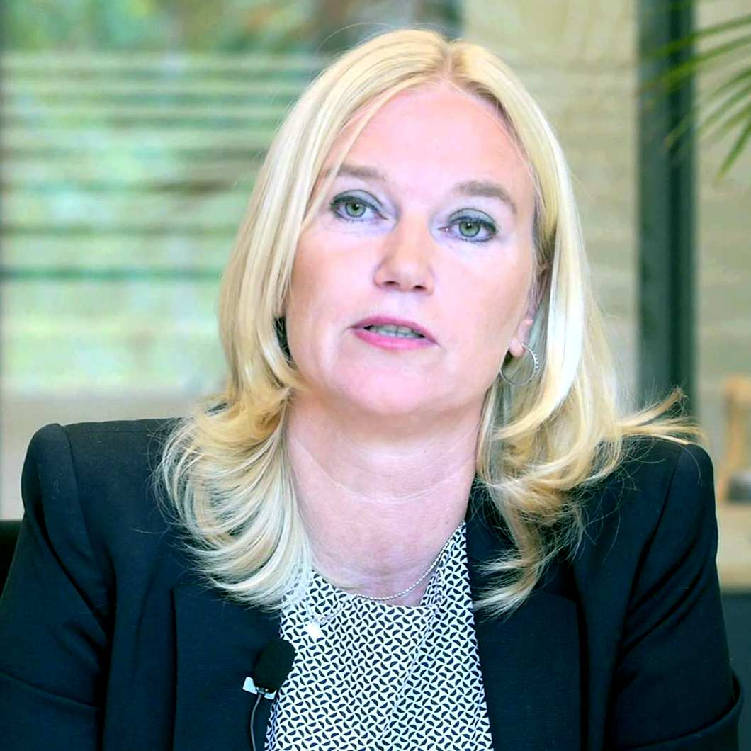 Picture of Dutch economics professor Mijntje Lückerath-Rovers